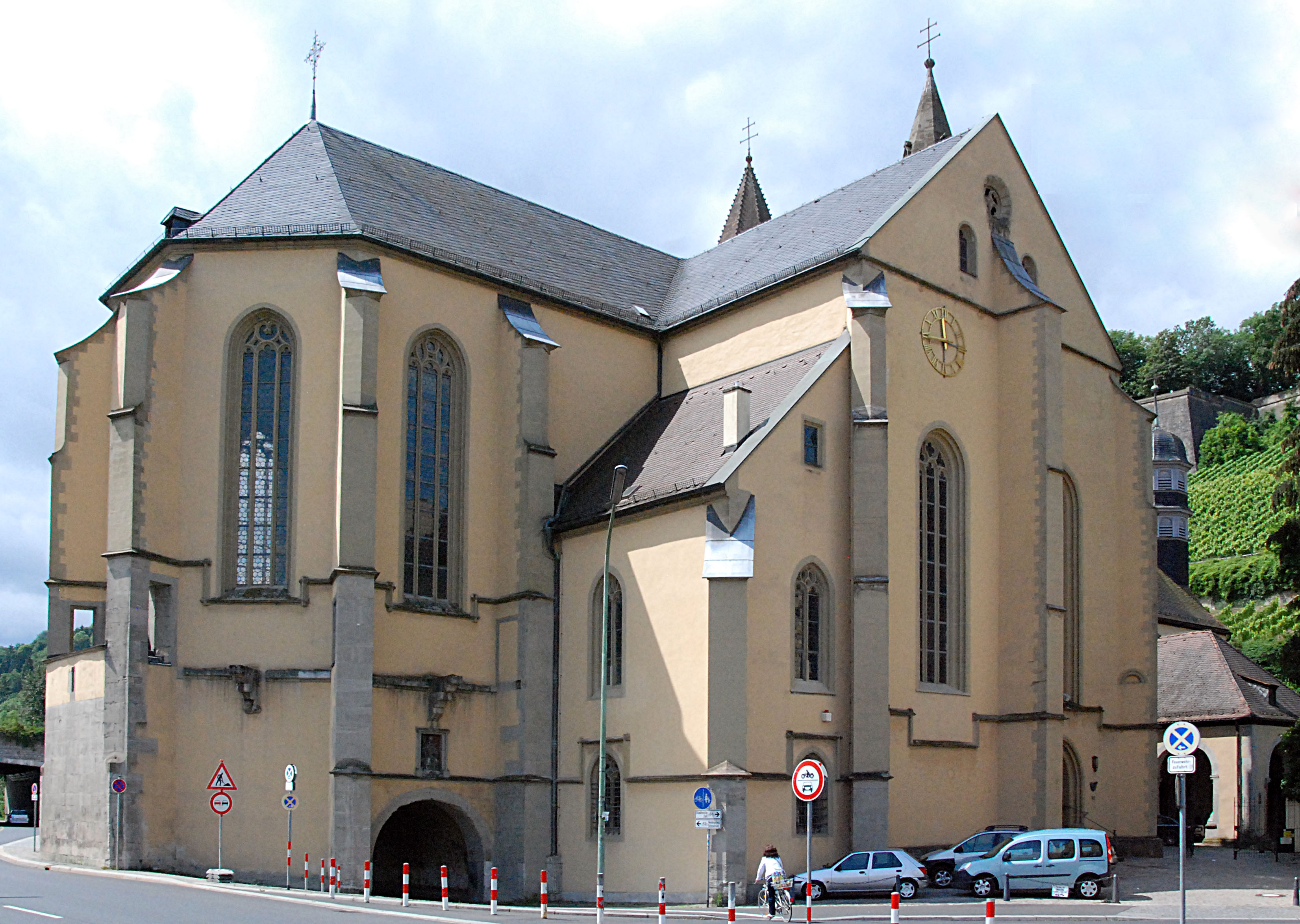 photo of St. Burkard in Würzburg, Germany